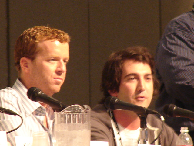 Comic-Con: Friday, July 27th